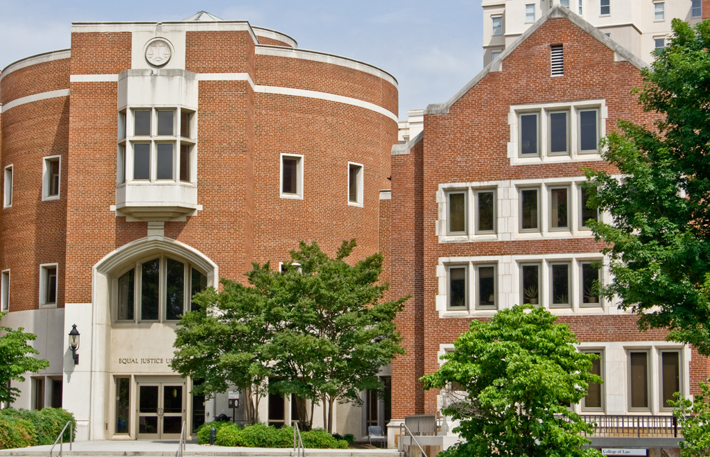 Exterior of the University of Tennessee College of Law. The Howard H. Baker, Jr. rotunda is visible on the left, and part of the original facility is visible on the right.